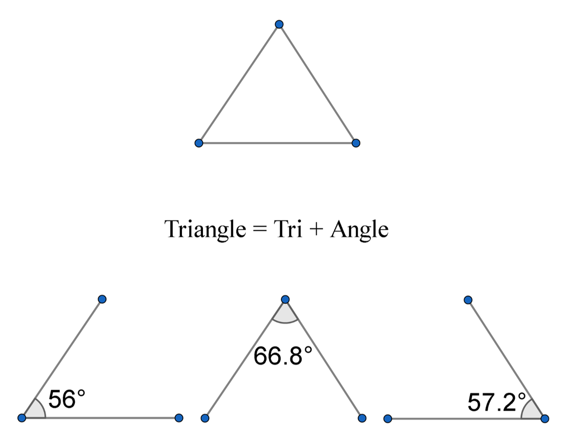 triangle is combination of tri (three) angle. triangle = tri + angle